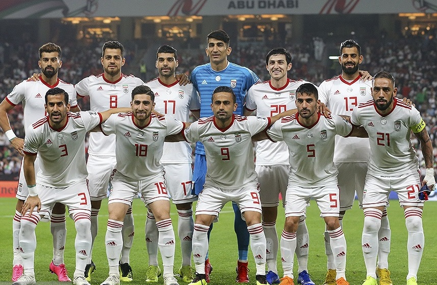 China PR-Iran Quarter-finals, 2019 AFC Asian Cup